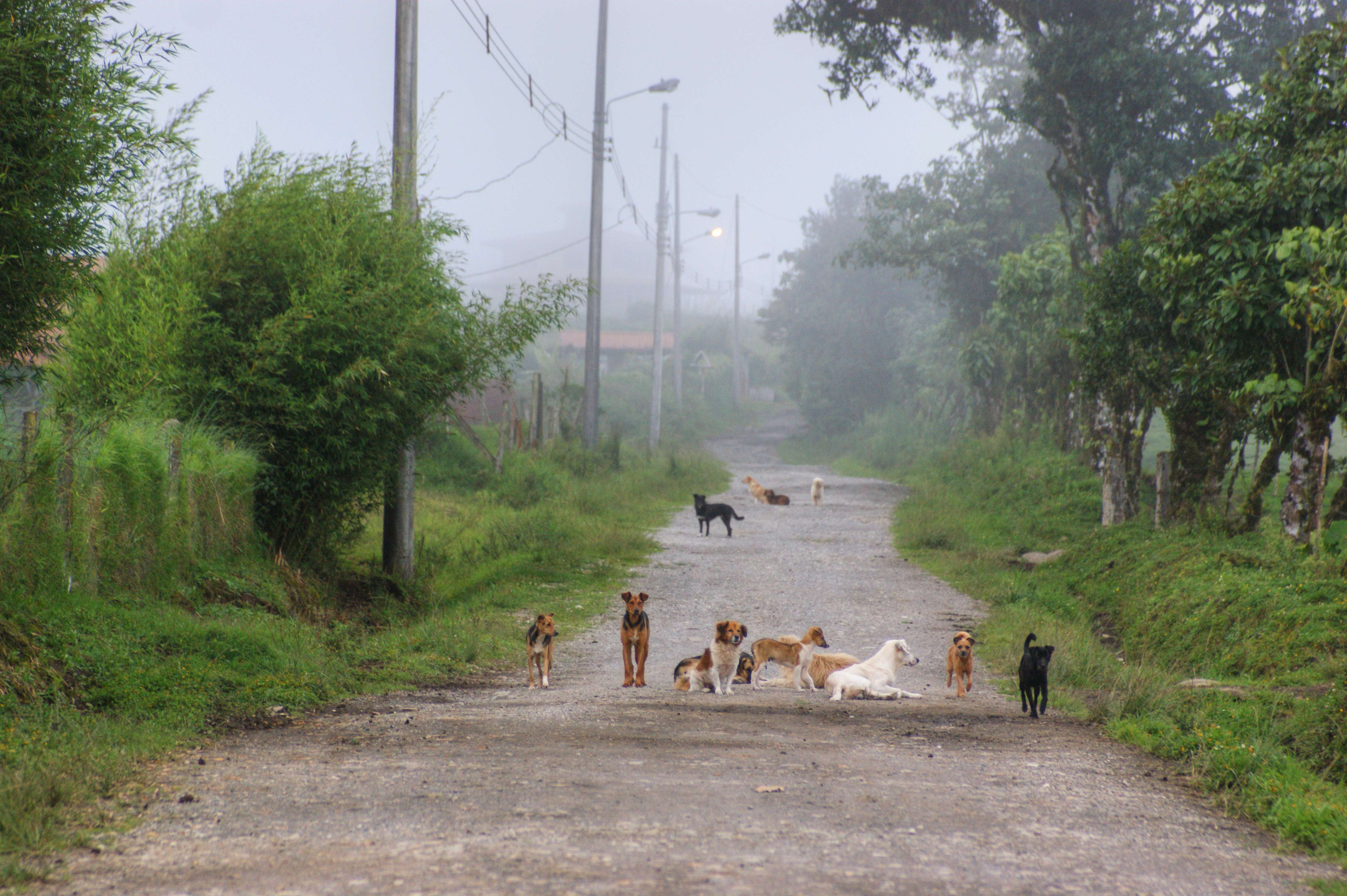 Coronado landscape